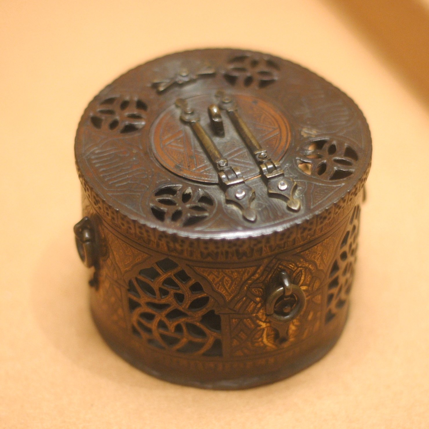 Perfume burner decorated with arcatures, found in Spain, 15th century ?. Beaten copper alloy with cut, engraved and gilded openwork decoration.